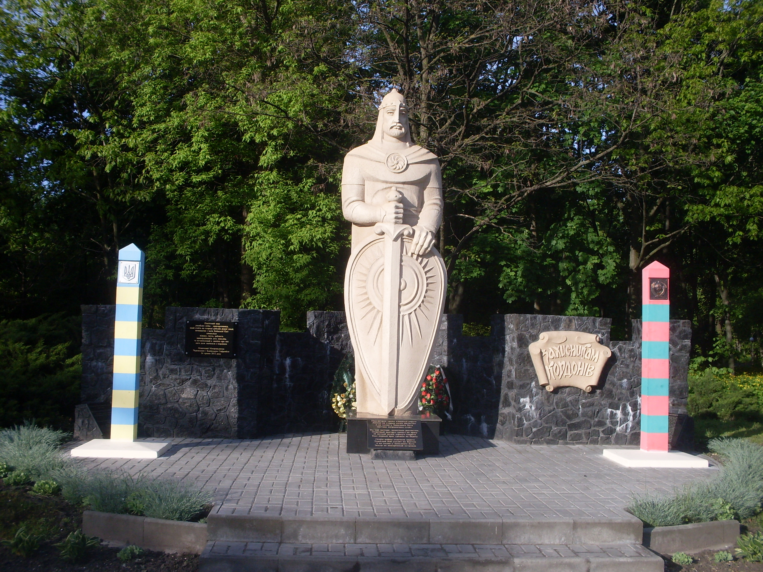 The Monument to Border Guards in Cherkasy